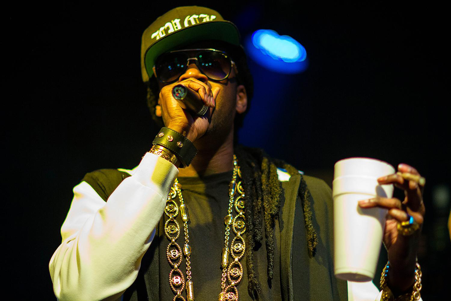 2 Chainz in Orange County.